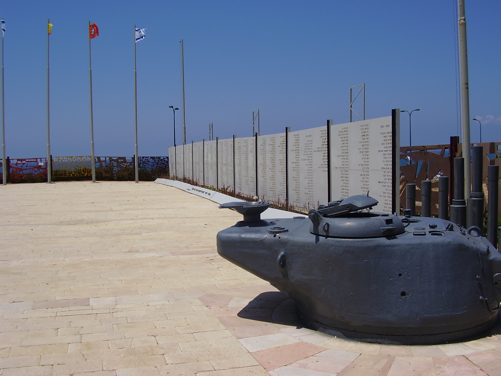 Ordnance Corps Memorial in Netanya, Israel